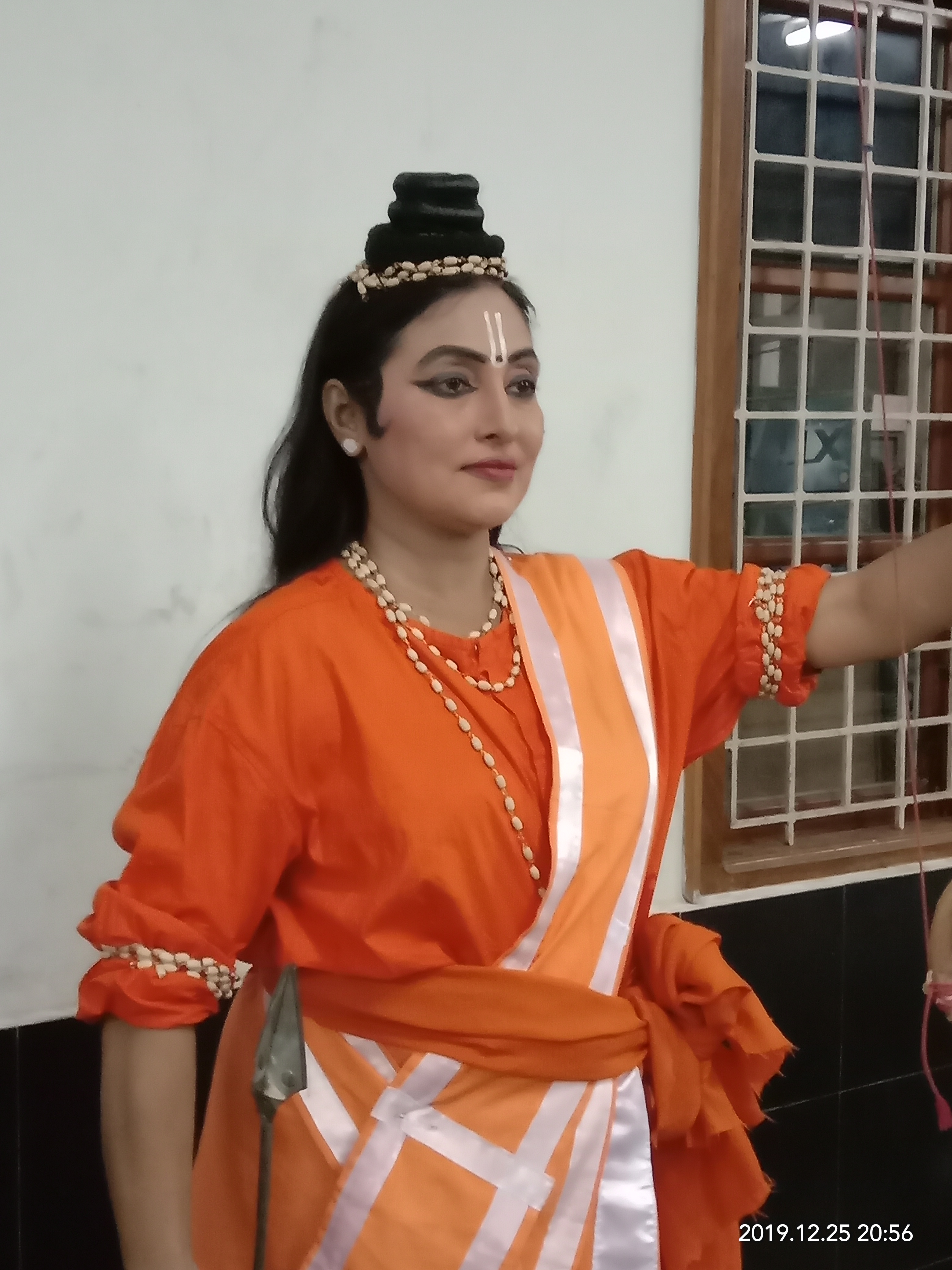 Photo of Natyamayuri Vid. Lakshmi Gururaj